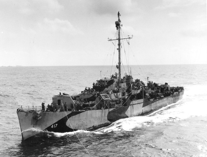 Oliver Mitchell is seen from the port bow on December 19, 1944 approaching USS Anzio (CVE-57) for a transfer. Oliver Mitchell is wearing camouflage 32/22D with some worn and some repainted patches.